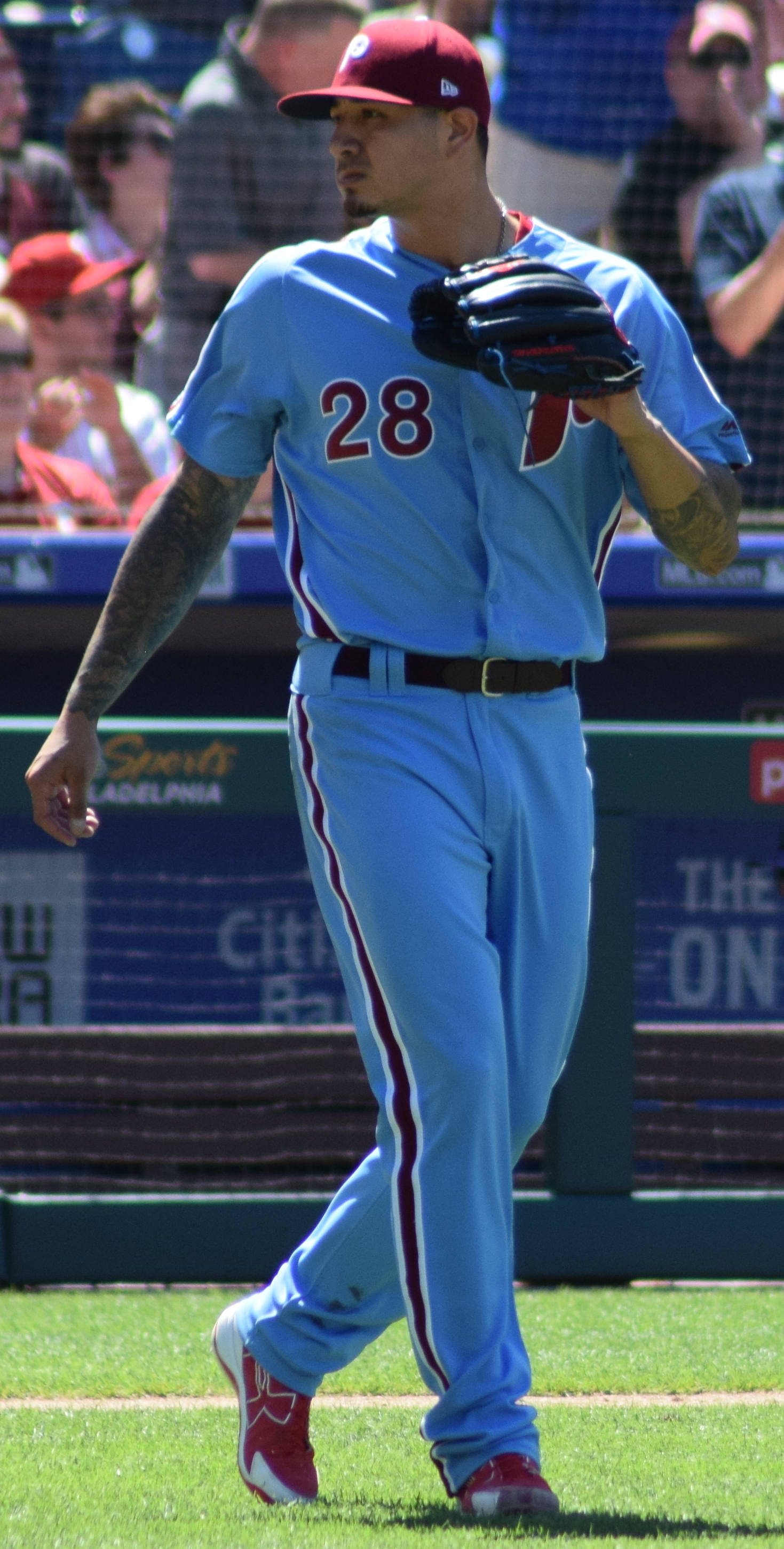 Velasquez in 2018